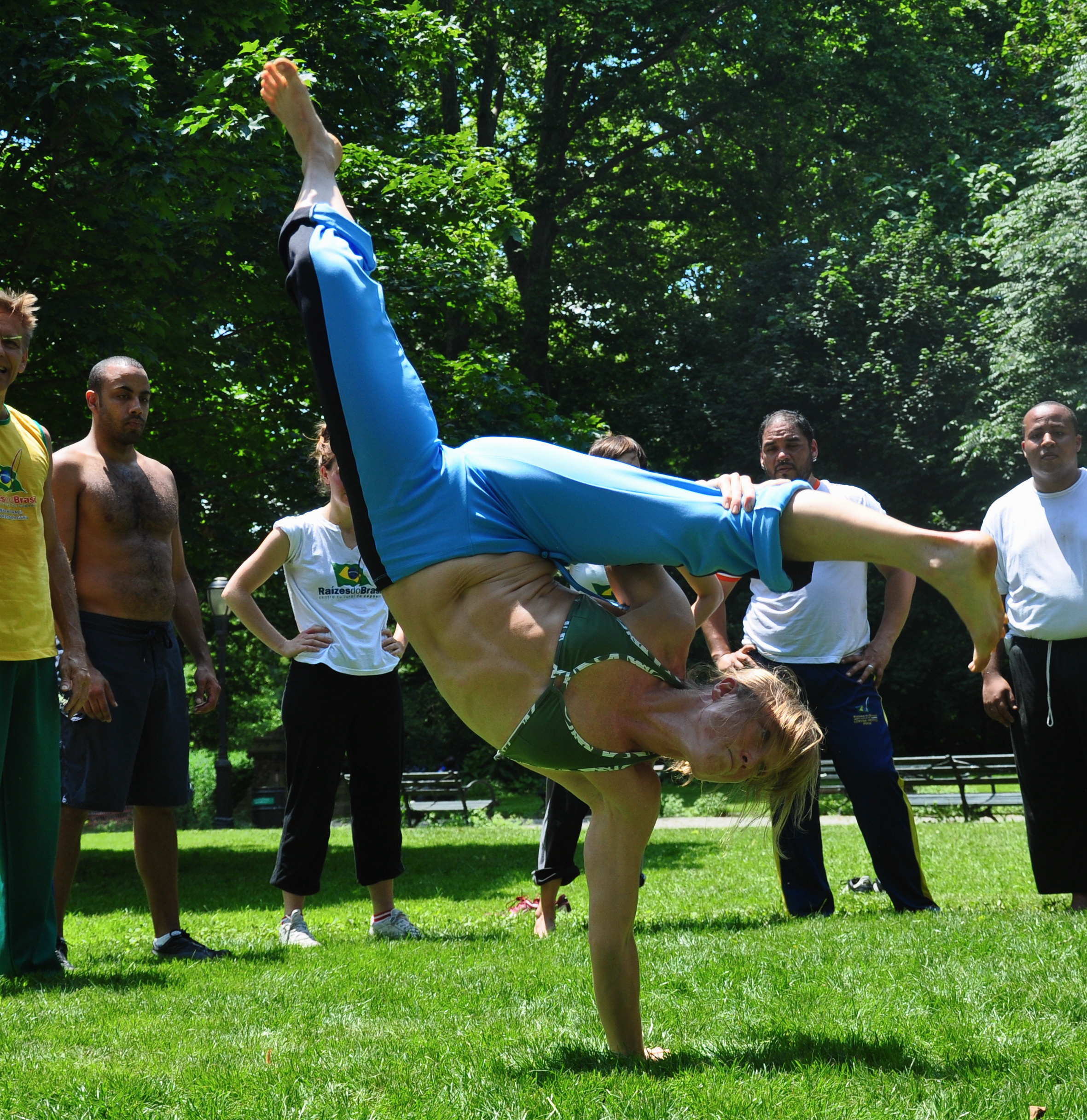 Woman doing a one-hande handstand during a capoeira session in Prospect, New York.